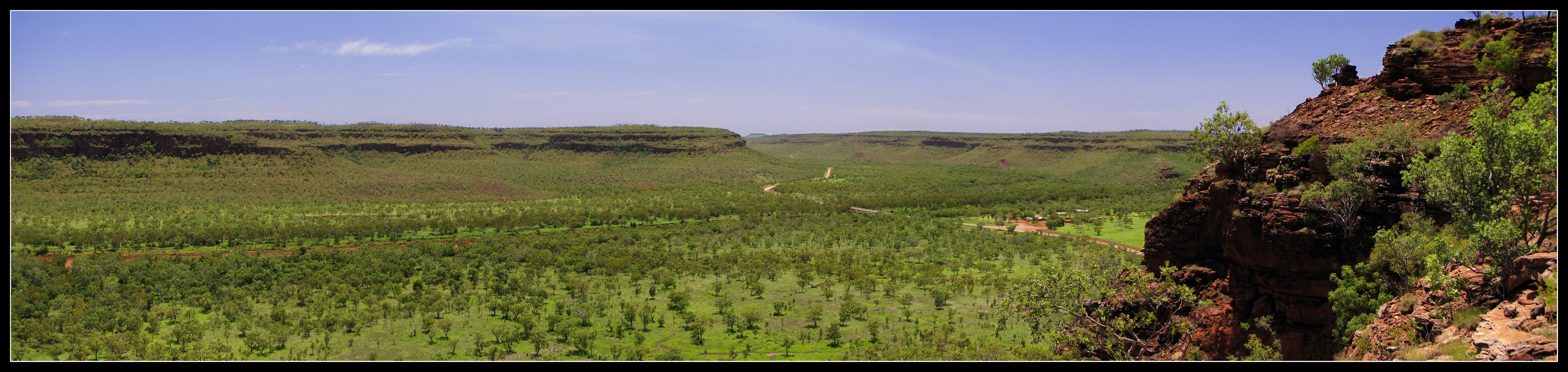 Gregory National Park. NT, Australia. The Victoria River Roadhouse lies to the right of view. Stay there for surly and contemptuous service and sour water. View large on 6 or more monitors for greatest effect.